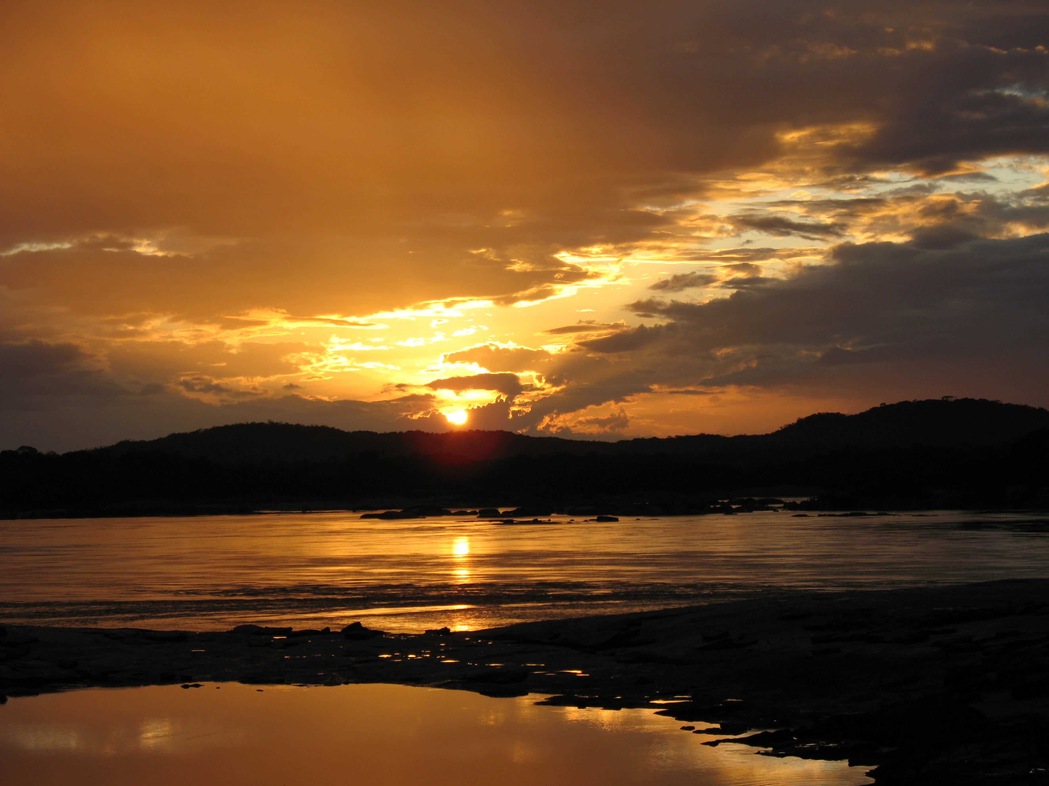 Sunset at the Orinocco (Venezuela).